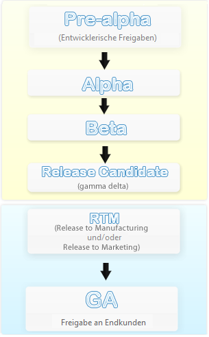 German version of Software dev3.png